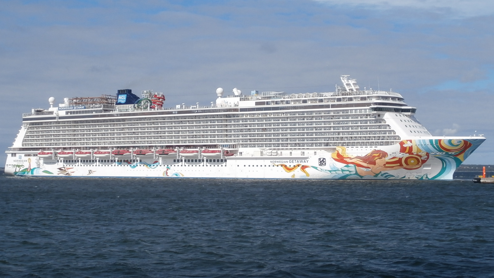 Norwegian Getaway departing Tallinn 27 June 2017